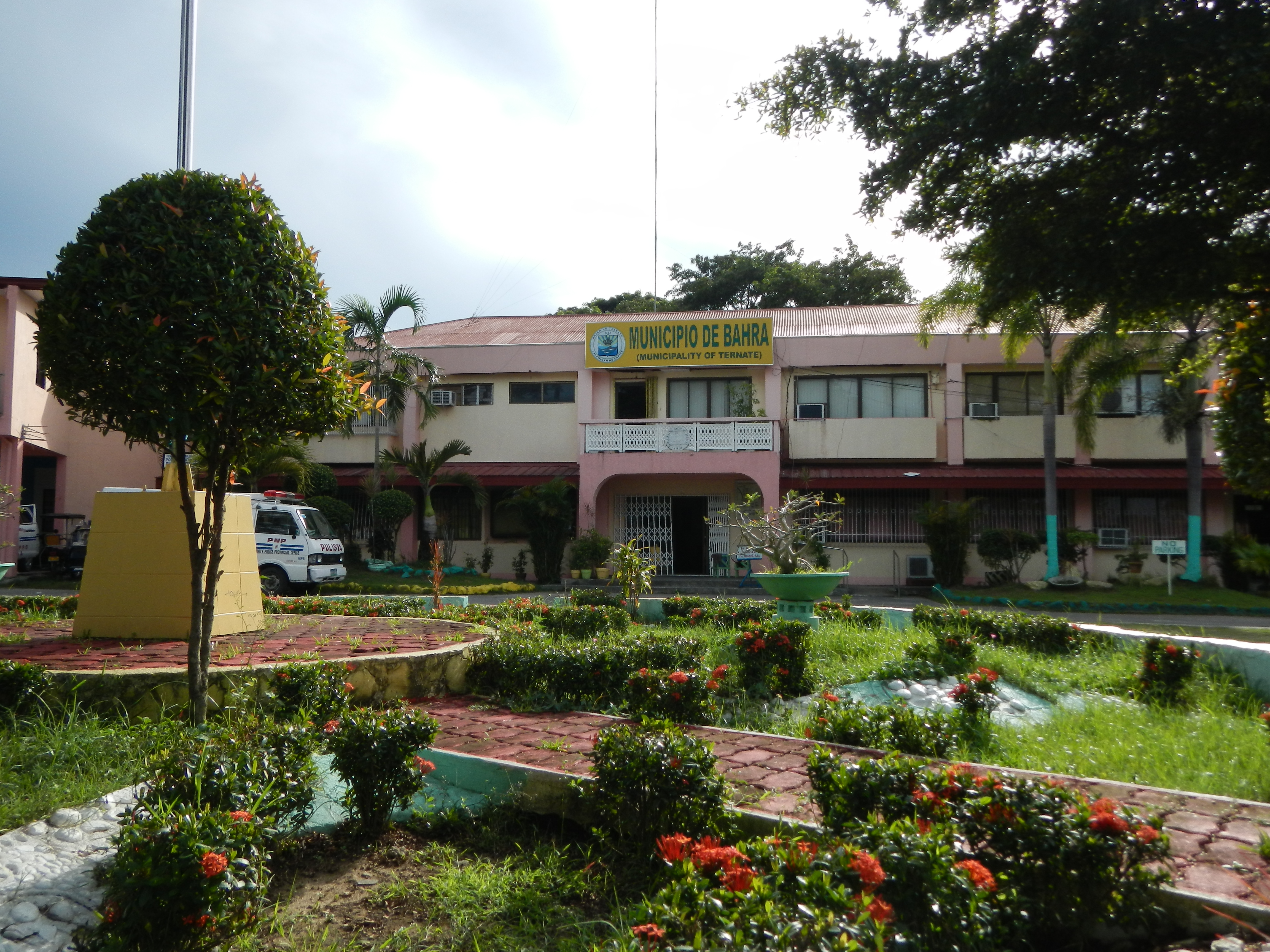 Ternate Municipal Hall Grounds - "Municipio de Bahra" - [1] Coordinates: 14°17'3"N 120°43'12"E, including the Junction, Crossing, Banco de Ternate and other Buildings, Scenery of - Ternate, Cavite[2] Website tuloy tuloy lang po sa bayan ng ternate chavacanos[3] Coordinates: 14°16'13"N 120°41'10"E - Kumusta ka na kabayan at Kaibigan! town proper of Ternate. Aquino woos Caviteños, raves over ‘tourism road’ Friday, April 5th, 2013 Ternate Ternate-Nasugbu (aka Kaybiang) Tunnel: The Longest Underground Road Tunnel in the Philippines March 22, 2013